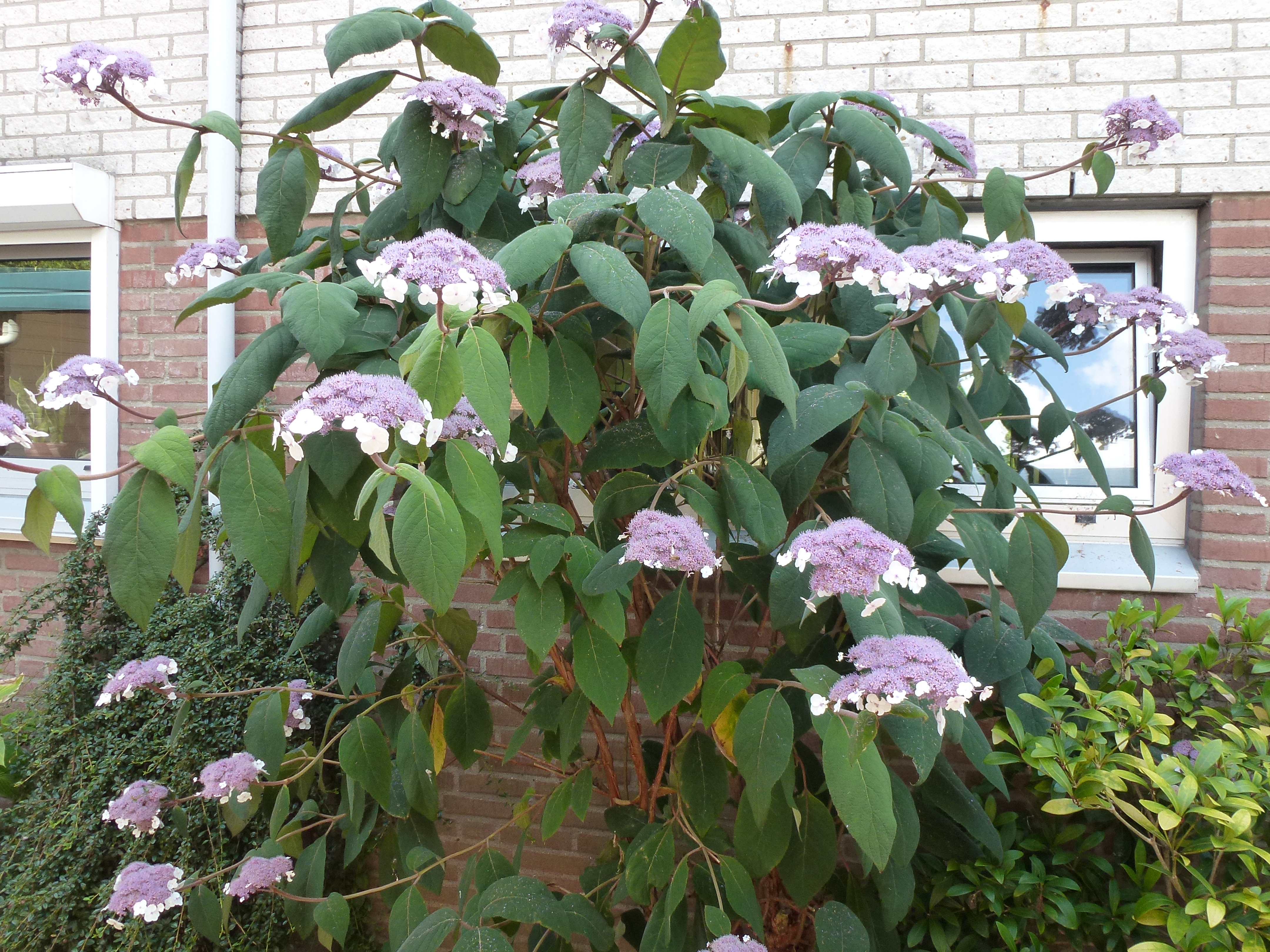 Hydrangea aspera Macrophylla (Nijmegen)